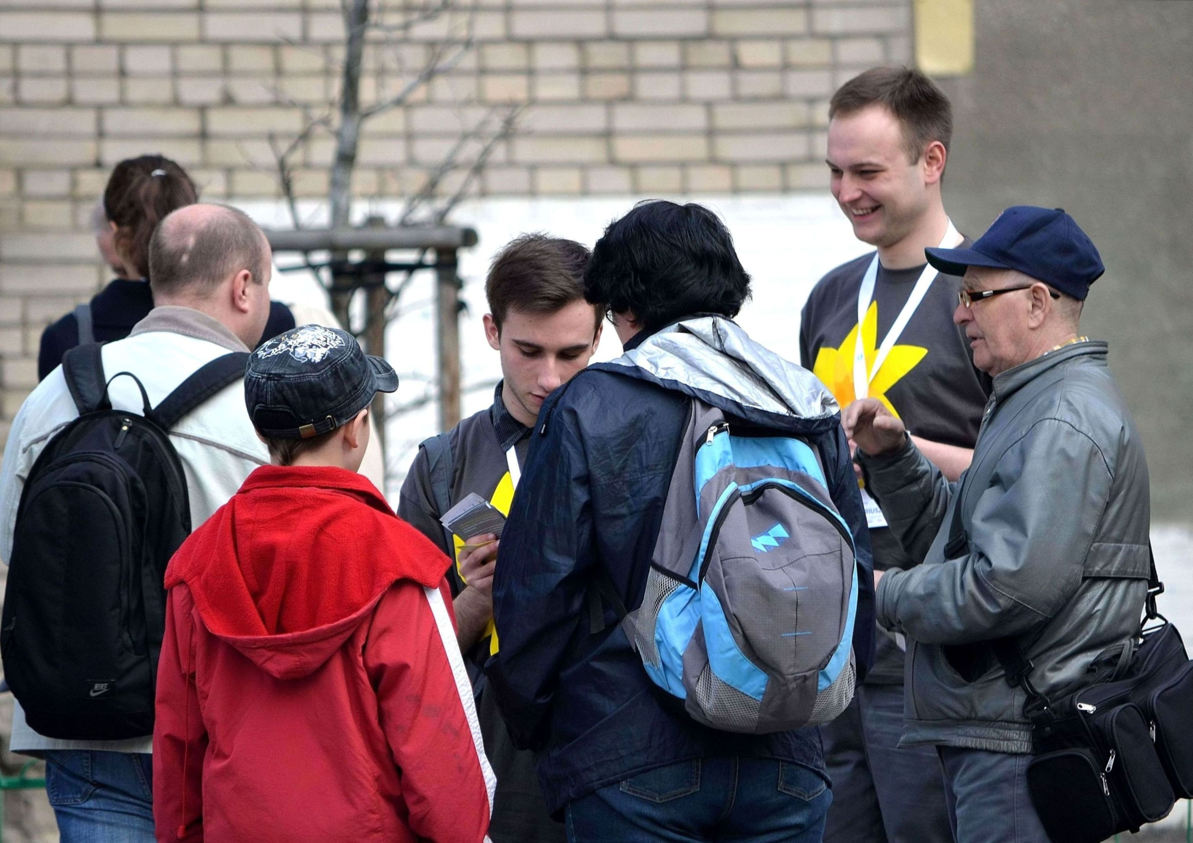 Operation "Daffodils" - a group of volunteers in Anielewicza Street in Warsaw